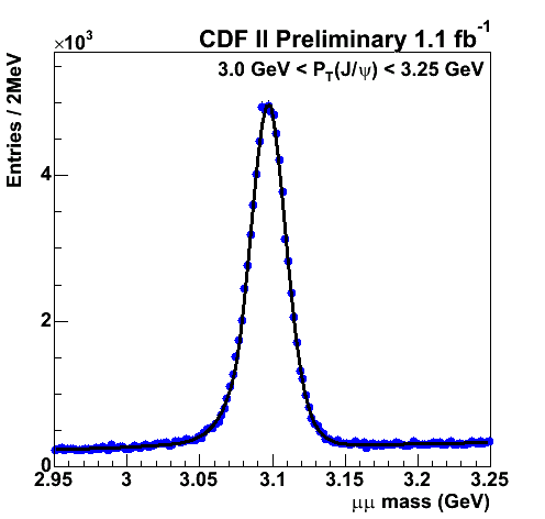 J/Psi Production vs decay muons mass